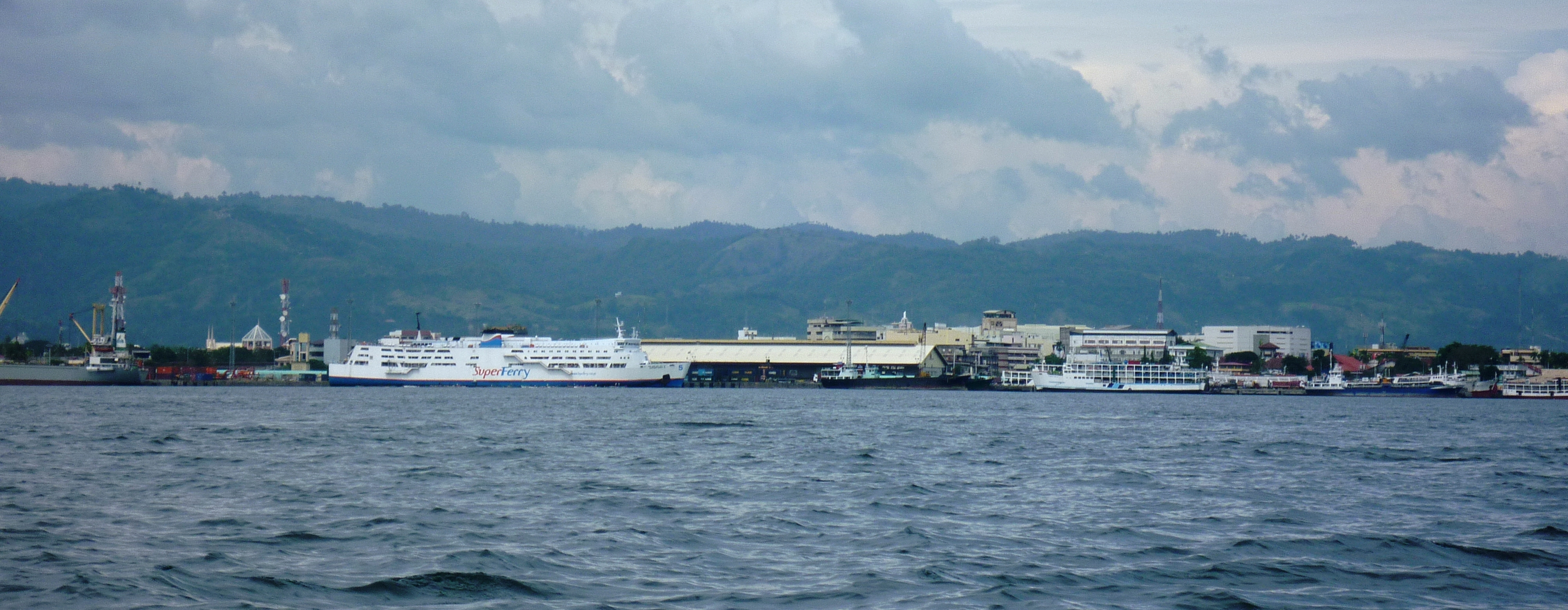 Panorama del cuidad de zamboanga